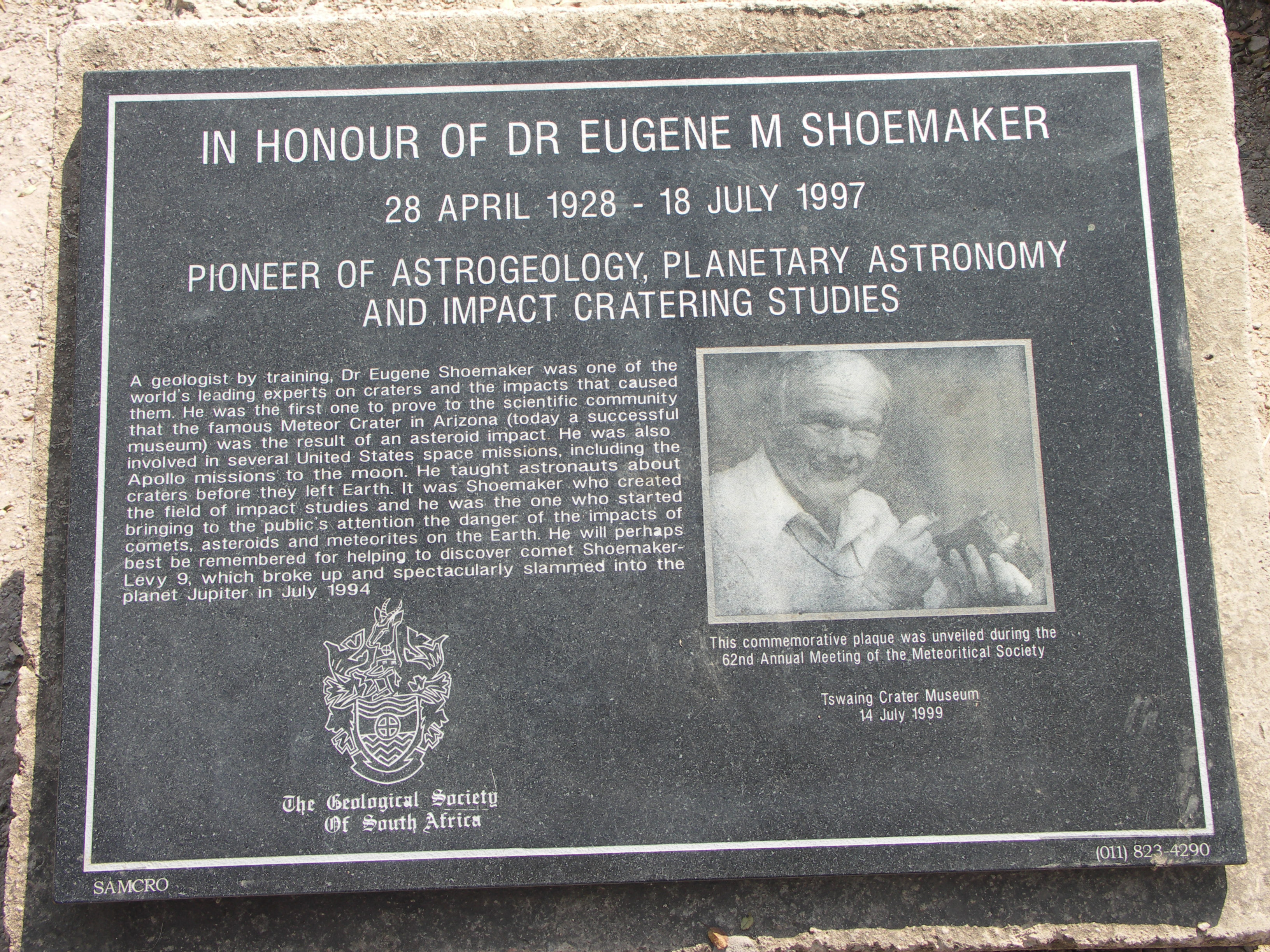 A memorial in honor of Eugene Merle Shoemaker at the Tswaing impact crater in Tswane, South Africa